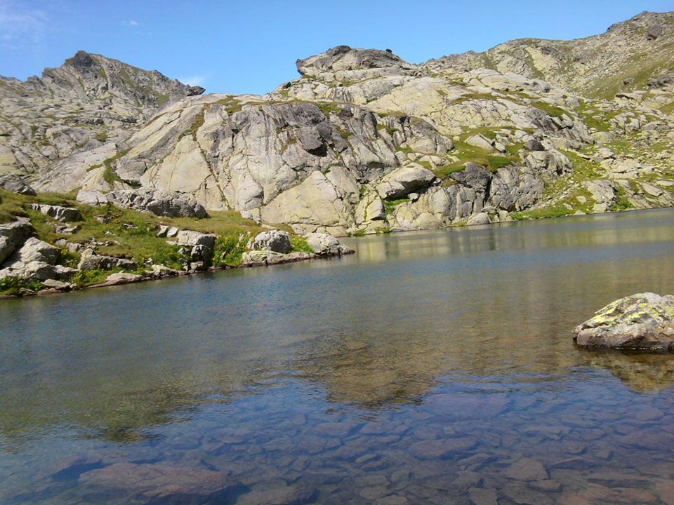 Liqeni i Gjerovices ("Lkeni" i quajtur nga tropojanet, nje liqen akullnajor ne bjeshket e Tropojes ne kufi me Republiken e Kosoves